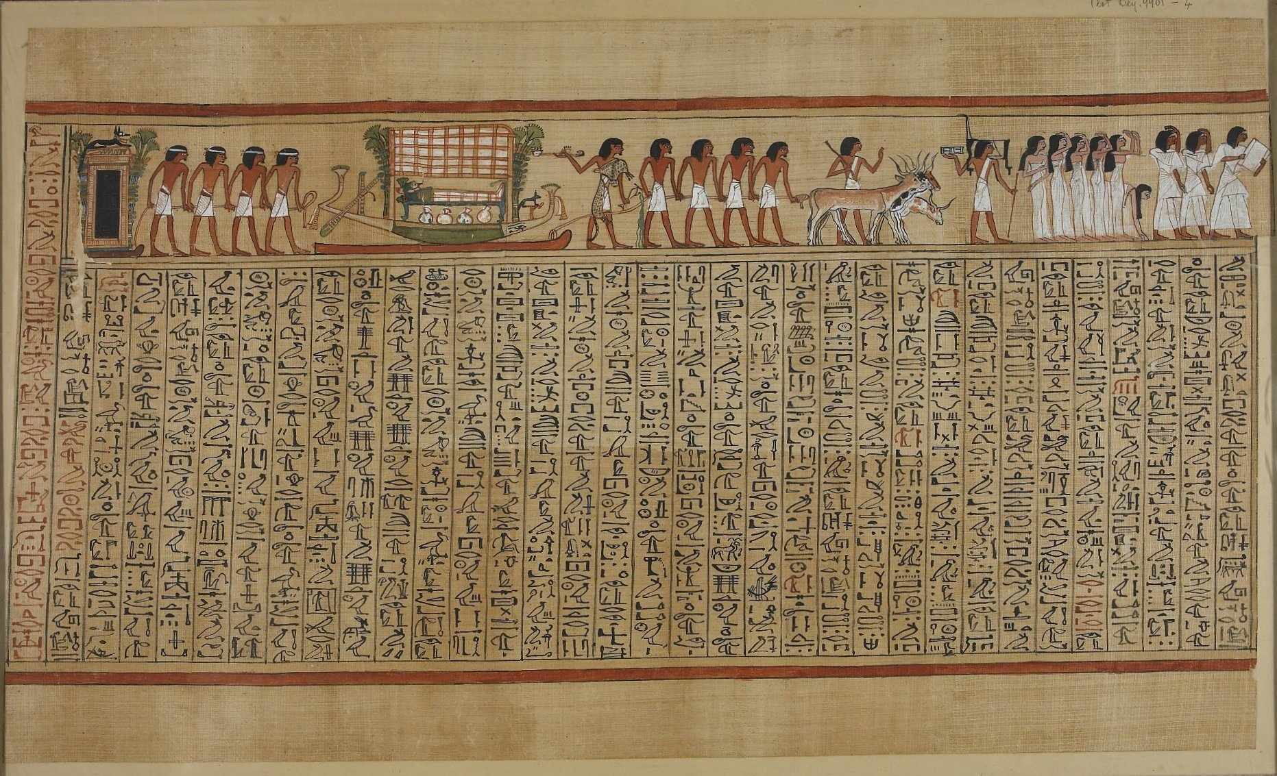 The Book of the Dead of Hunefer, sheet 4.